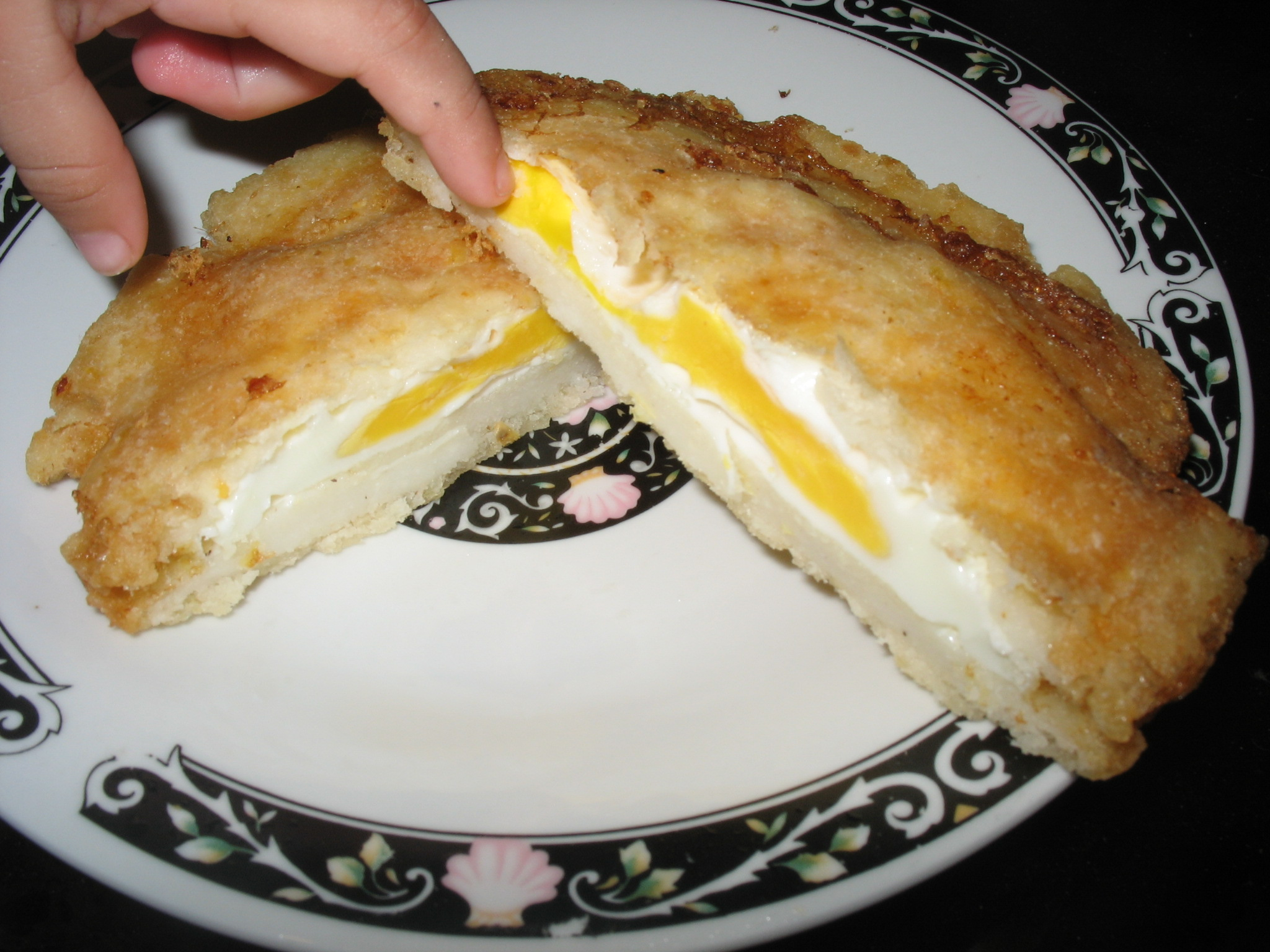 Inside of an arepa with egg